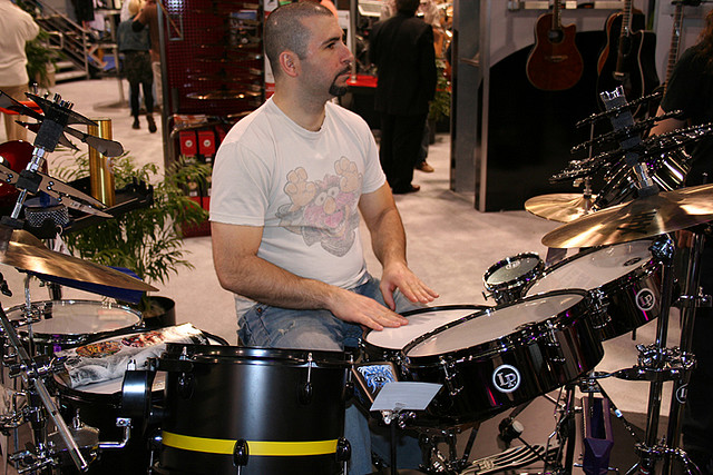 John Dolmayan (from System of a Down/Scars on Broadway) trying out some gear at the LP booth during NAMM 2009.